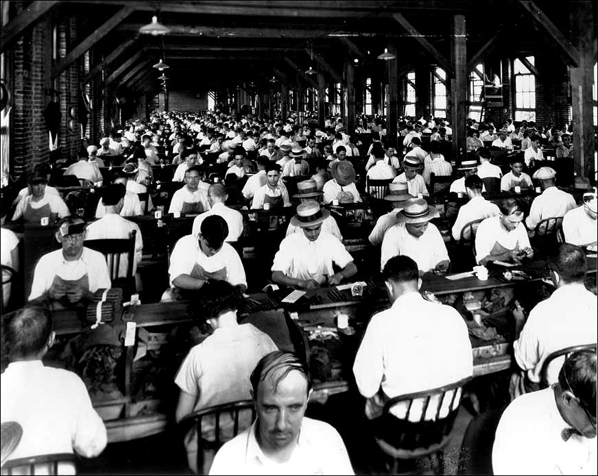 This photo shows the inside of an Ybor City cigar factory, circa 1920. It's from the historical collection of the Tampa-Hillsborough County Public library, and it's been published in MANY books and magazine articles concerning Ybor City, is reproduced (in huge dimensions) on the inside wall of Ybor Square, and has been painted into a couple of murals around town showing local history. It's definitely in the public domain.